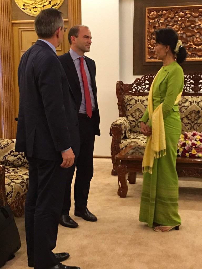 Good meeting today with Aung San Suu Kyi discussing US support for NLD-led govt and Burma's democratic transition.